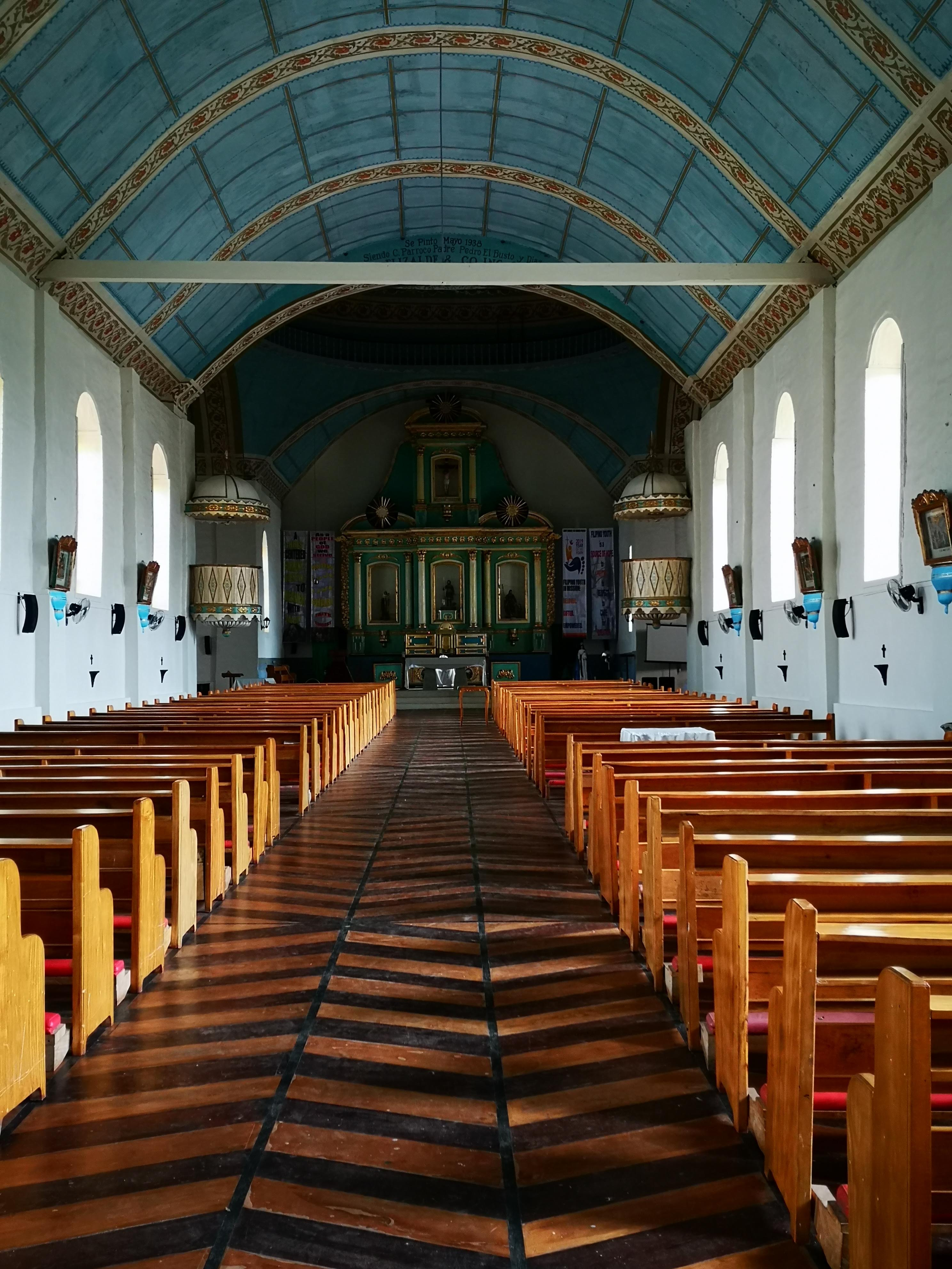 La nef et le sol en bois de l'église de Lazi